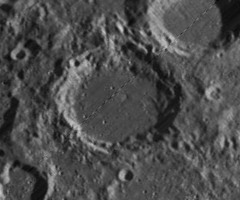 Oblique view of Petermann, on the moon.